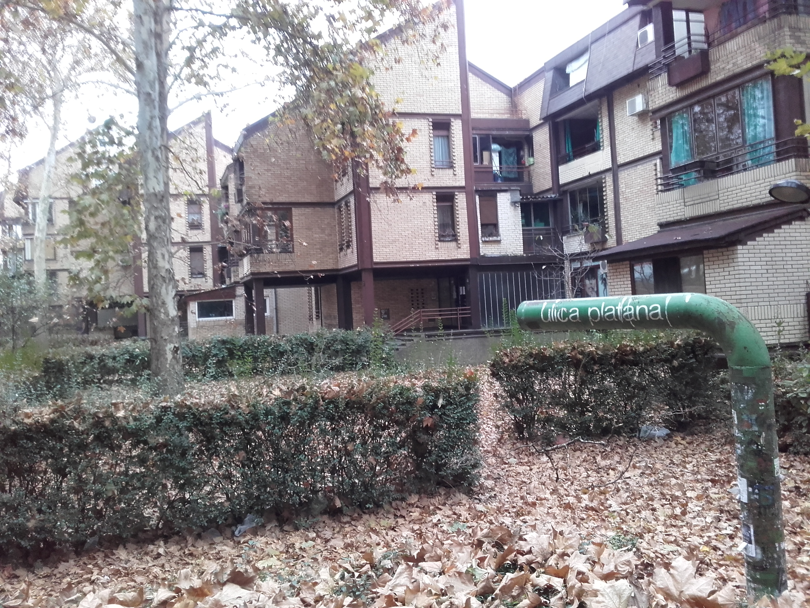 Settlement Cerak vinyeards, street of planetree Srpski (latinica): Cerak vinogradi (18.11.2018.), ulica Platana